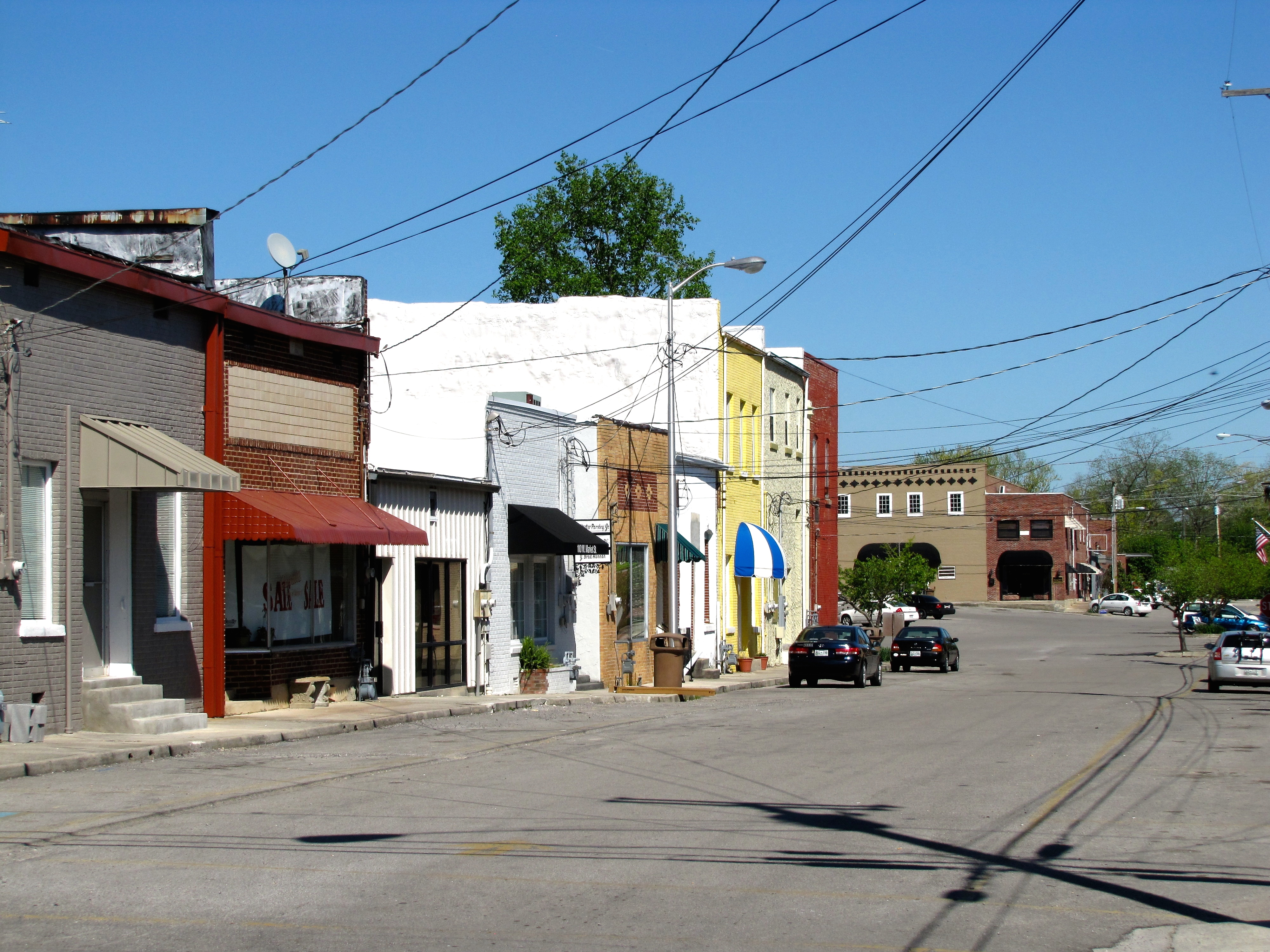 Buildings along West Market Street in Smithville, Tennessee, United States.